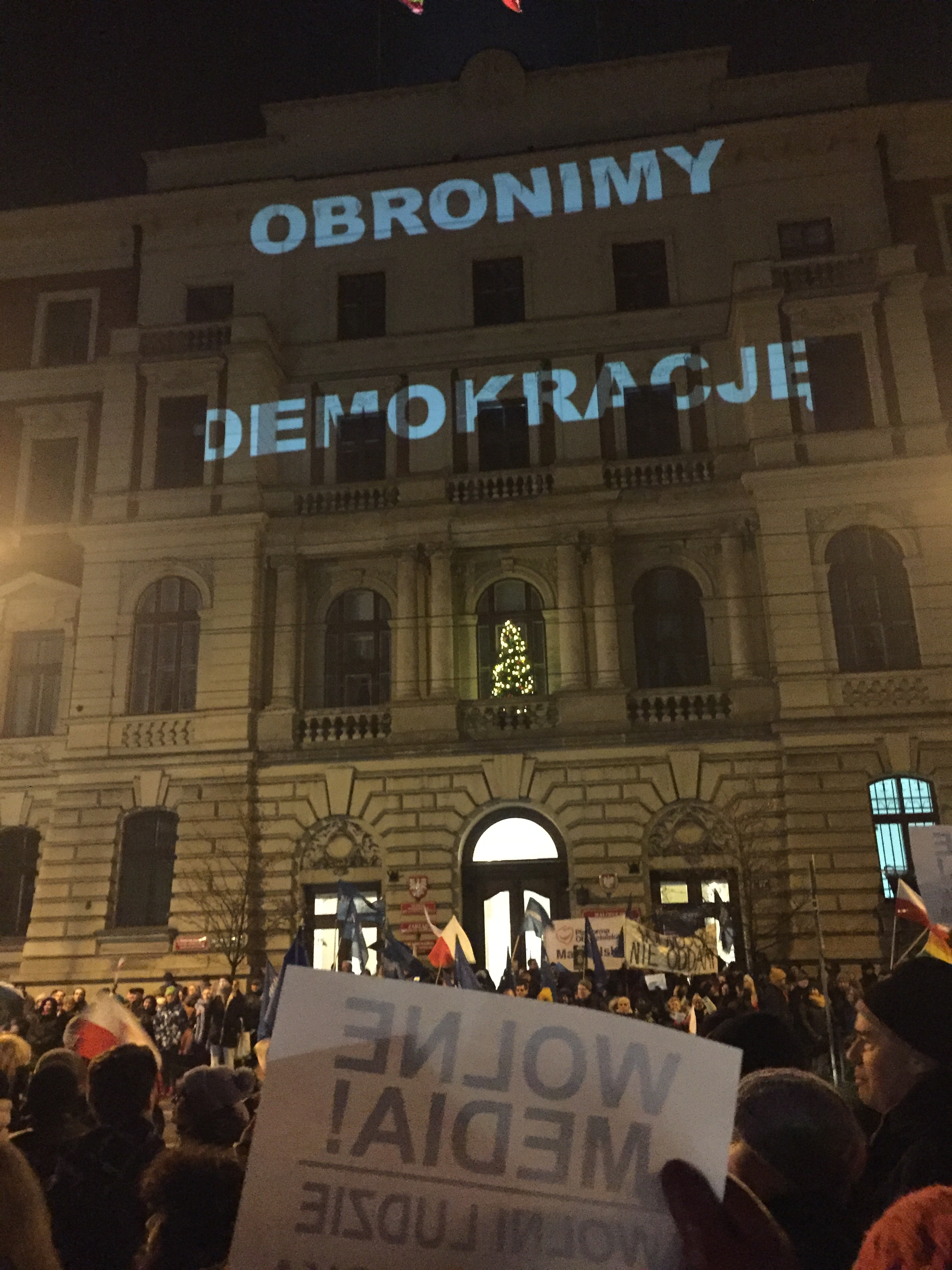 Demonstration against limiting of freedom of the press, Cracow, Poland, 16 Dec. 2016. "Obronimy demokrację"=We will defend democracy, "Wolne media! Wolni ludzie"=Free media, free people.